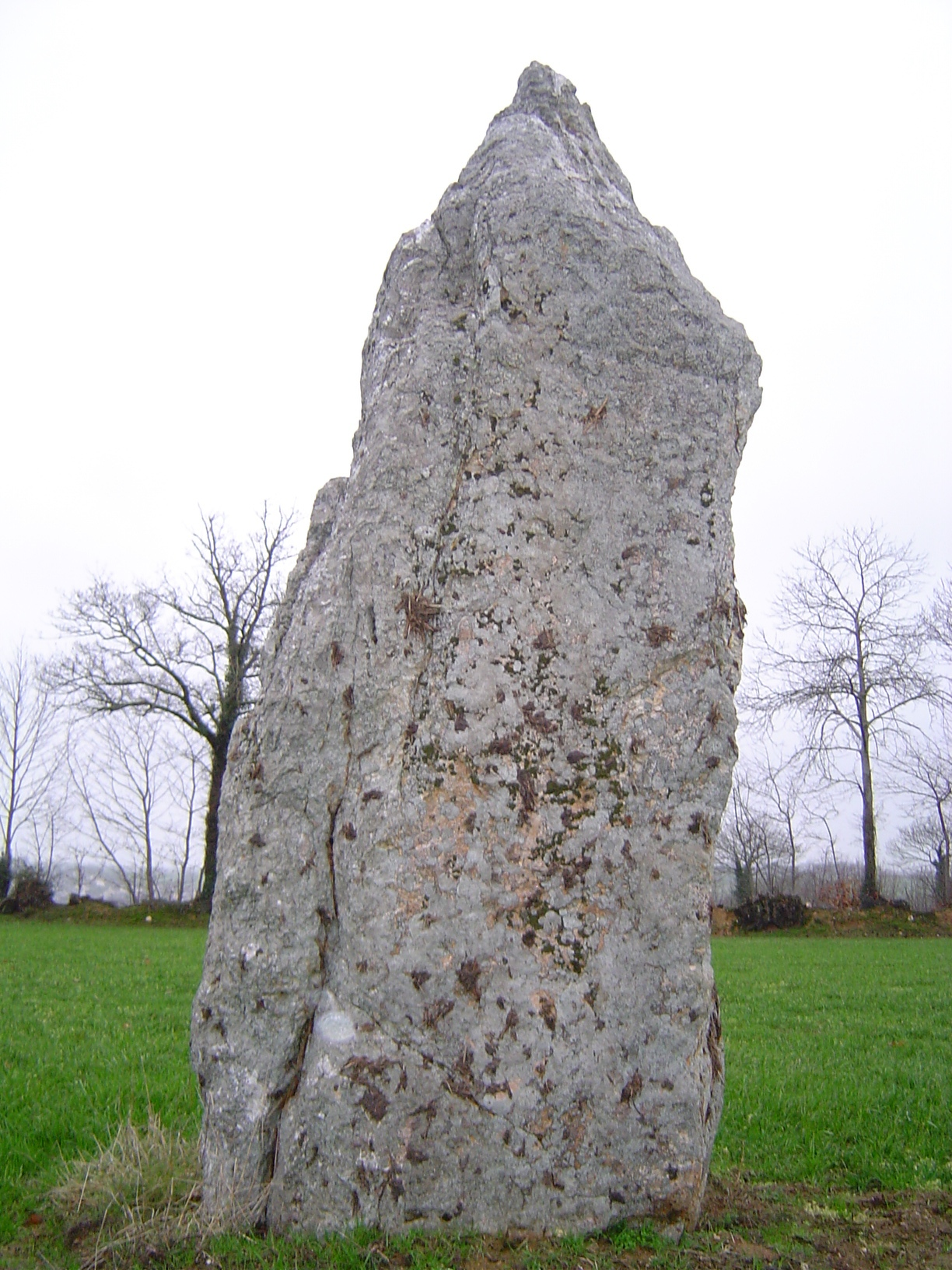 Pocé-les-Bois (Ille-et-Vilaine, Bretagne, France) : La Pierre Blanche menhir.